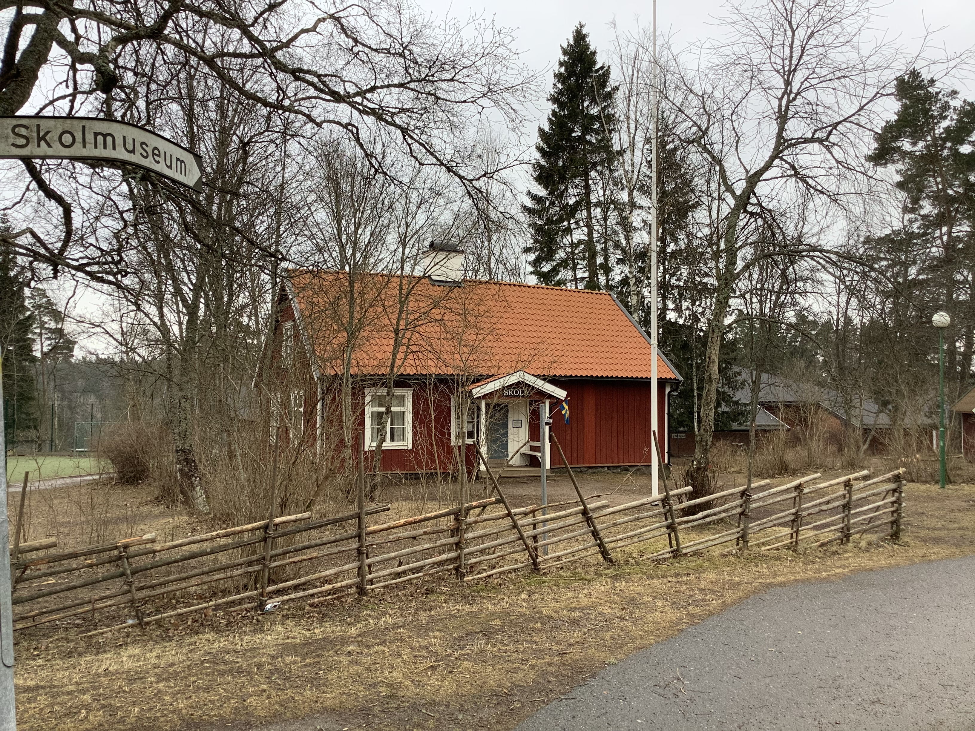 Svartbäcken school museum in Svartbäcken, Haninge, in a school building from 1846